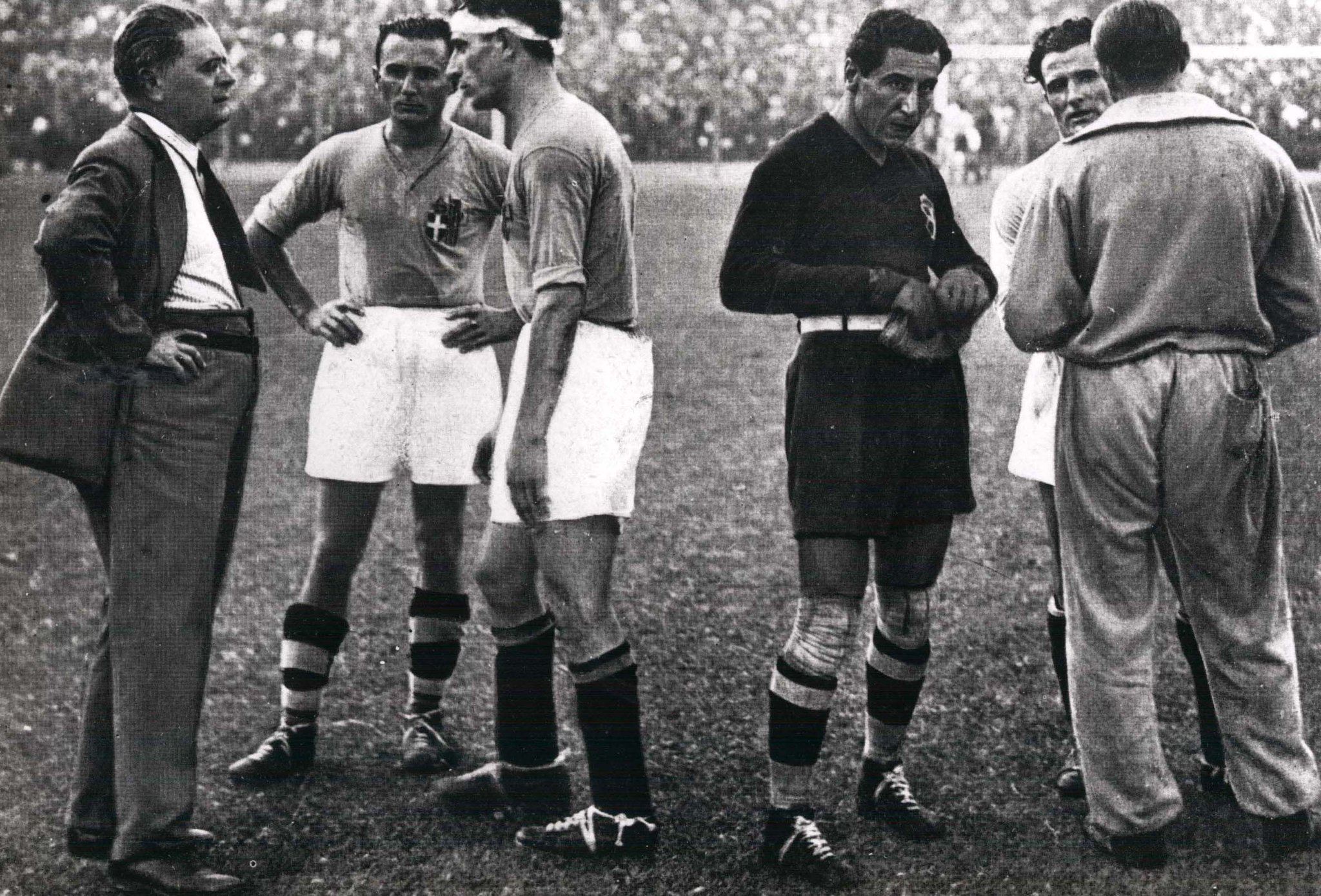 Rome, National Fascist Party's Stadium, June 10, 1934. From left to right: before the start of extra time of 1934 World Cup Final between Italy and Czechoslovakia, won 2-1 (a.e.t.) by the Azzurri, the Italian manager Vittorio Pozzo gives directions to his players Eraldo Monzeglio and, with his classic white handkerchief on the front, Luigi Bertolini; the goalkeeper and captain Gianpiero Combi, in black uniform, seems distracted by other thoughts, while next to him are discussing Luis Monti (half-hidden) and the assistant manager Carlo Carcano (behind).